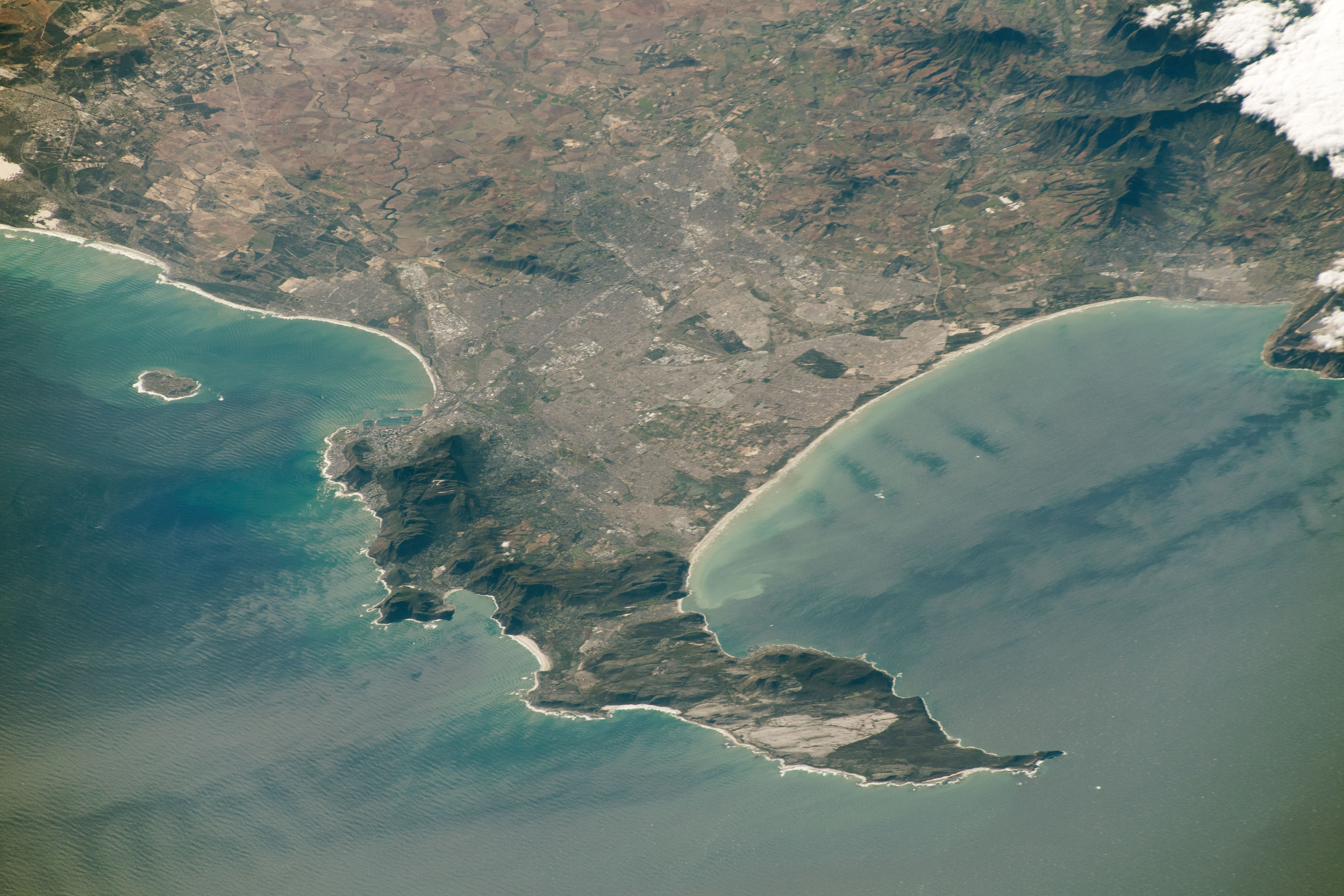 View of City of Cape Town showing the Cape Peninsula and Cape Flats from the International Space Station. Astronaut photograph ISS059-E-78303 was acquired on May 28, 2019, with a Nikon D5 digital camera using a 340 millimeter lens and is provided by the ISS Crew Earth Observations Facility and the Earth Science and Remote Sensing Unit, Johnson Space Center. The image was taken by a member of the Expedition 59 crew. The image has been cropped and enhanced to improve contrast, and lens artifacts have been removed.